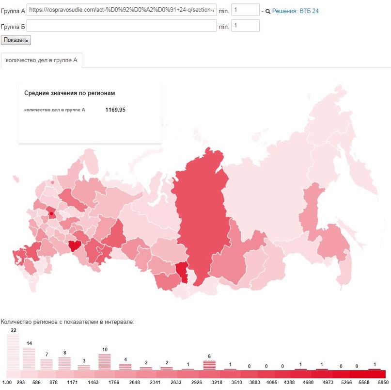 Court decisions on map